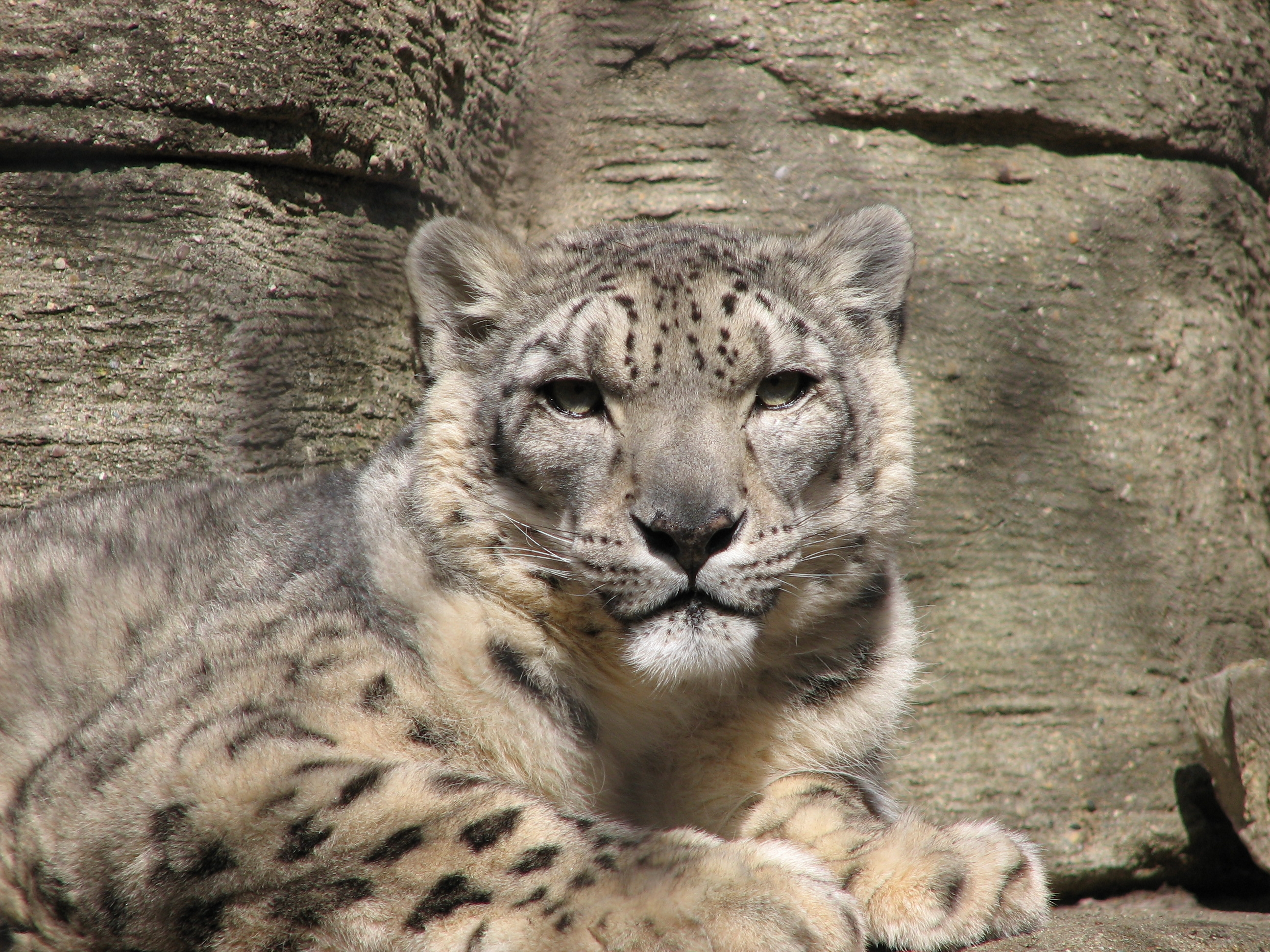 Snow leopard at the Louisville Zoo